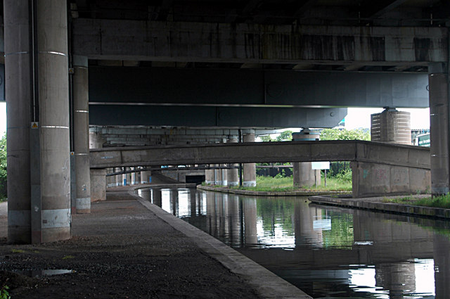 Oldbury Locks Junction This junction is located directly beneath the M5.